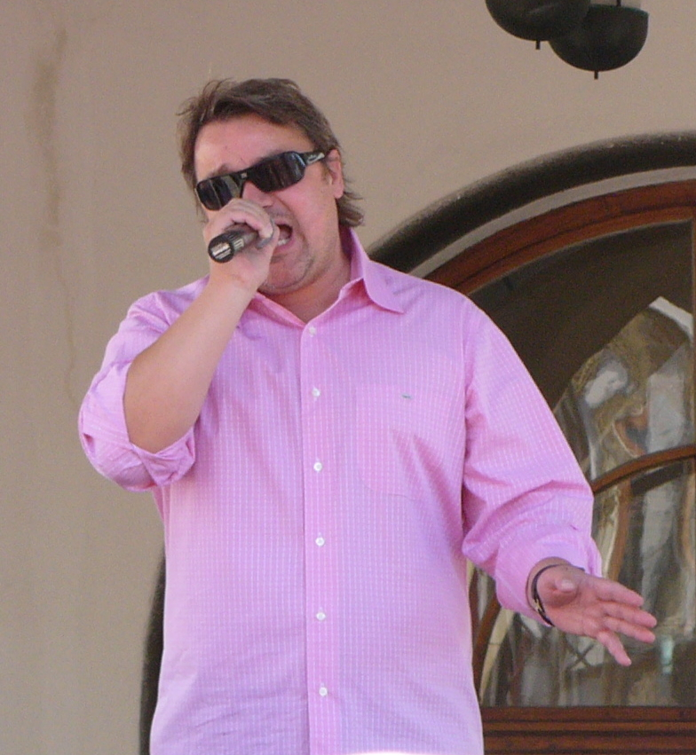 Miloš Pokorný, Czech radio presenter and singer of musical duo Těžkej Pokondr